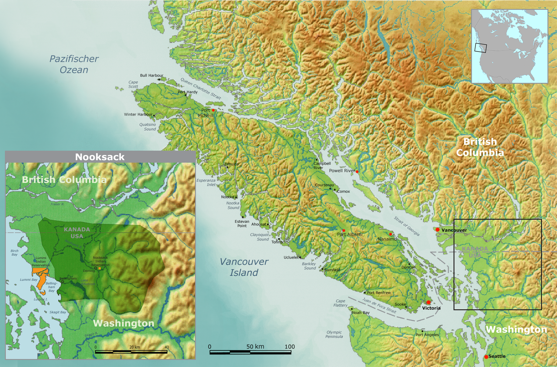 Map of traditional Nooksack tribal territory and Indian Reservation.